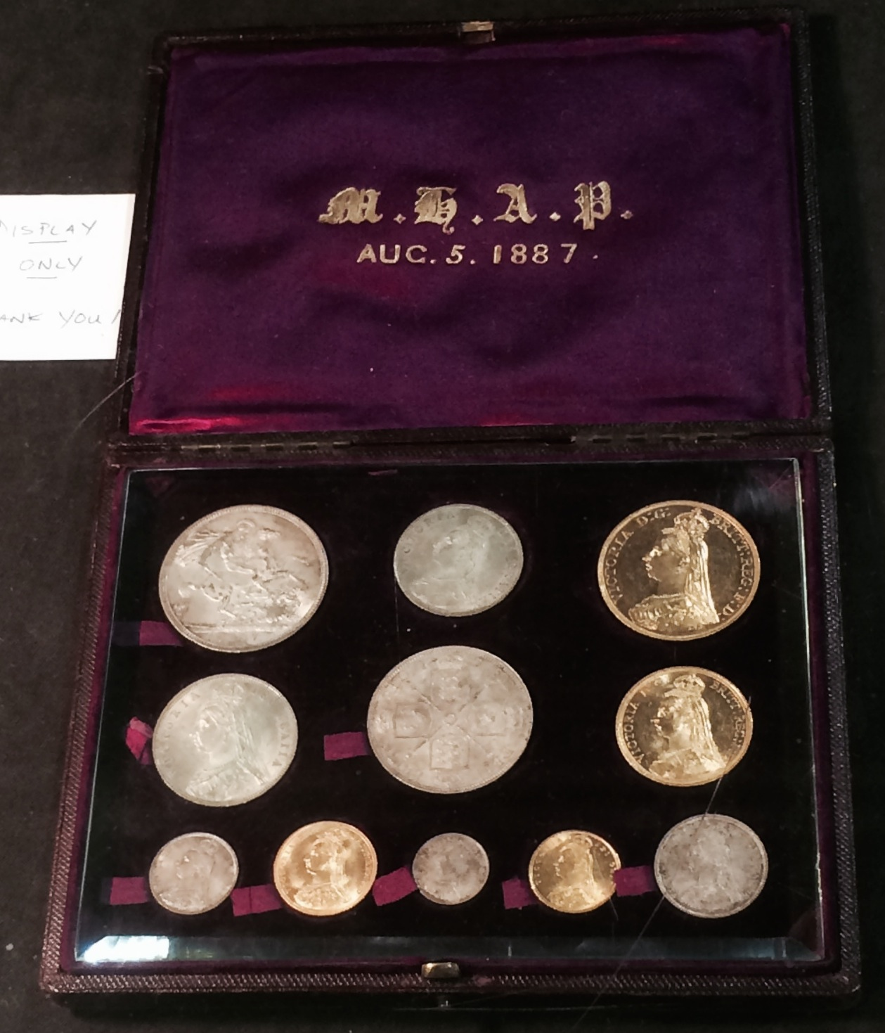 1887 Royal Mint proof/specimen set